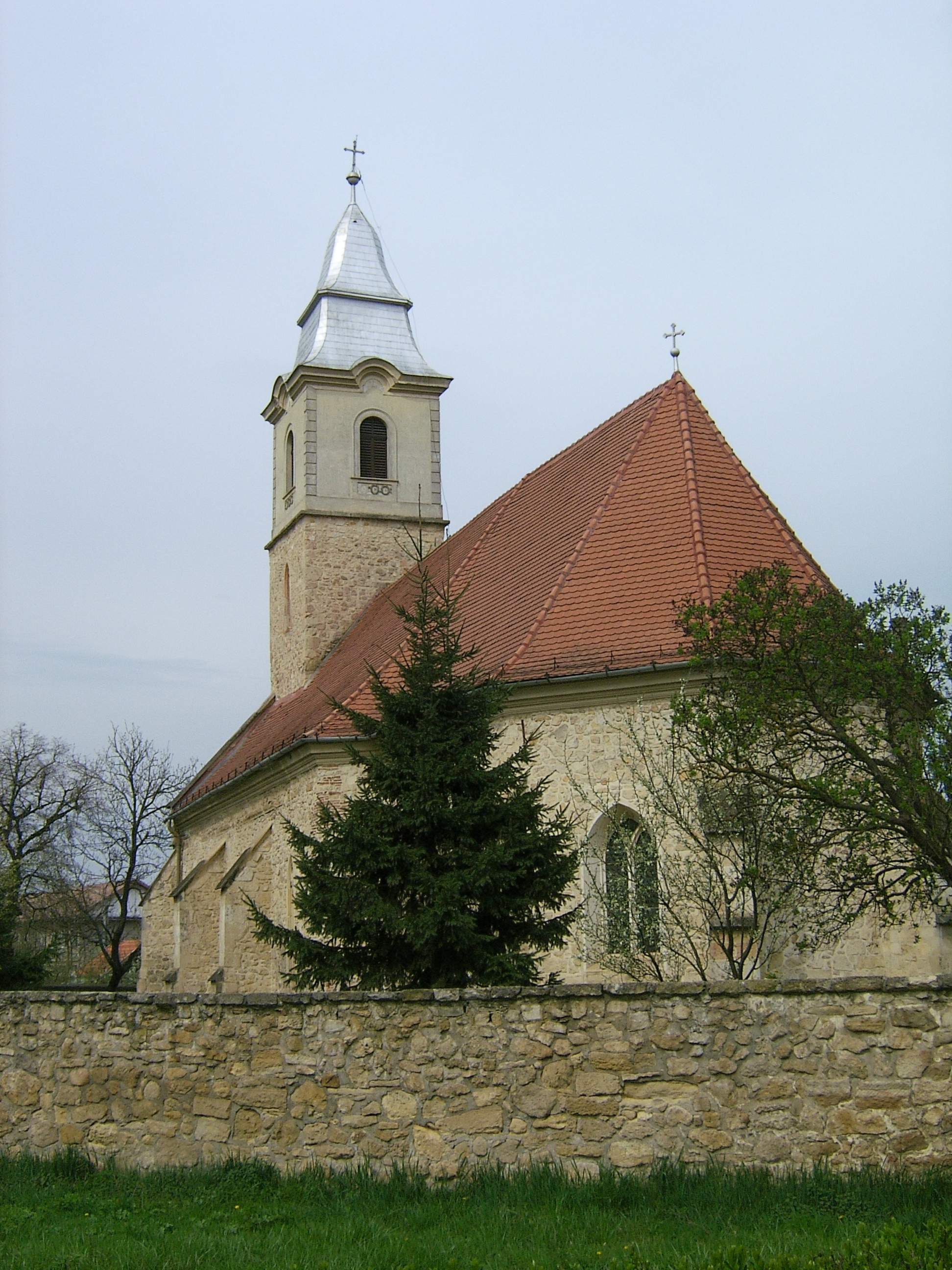 The roman catholic church of Floreşti, Cluj County, Transylvania